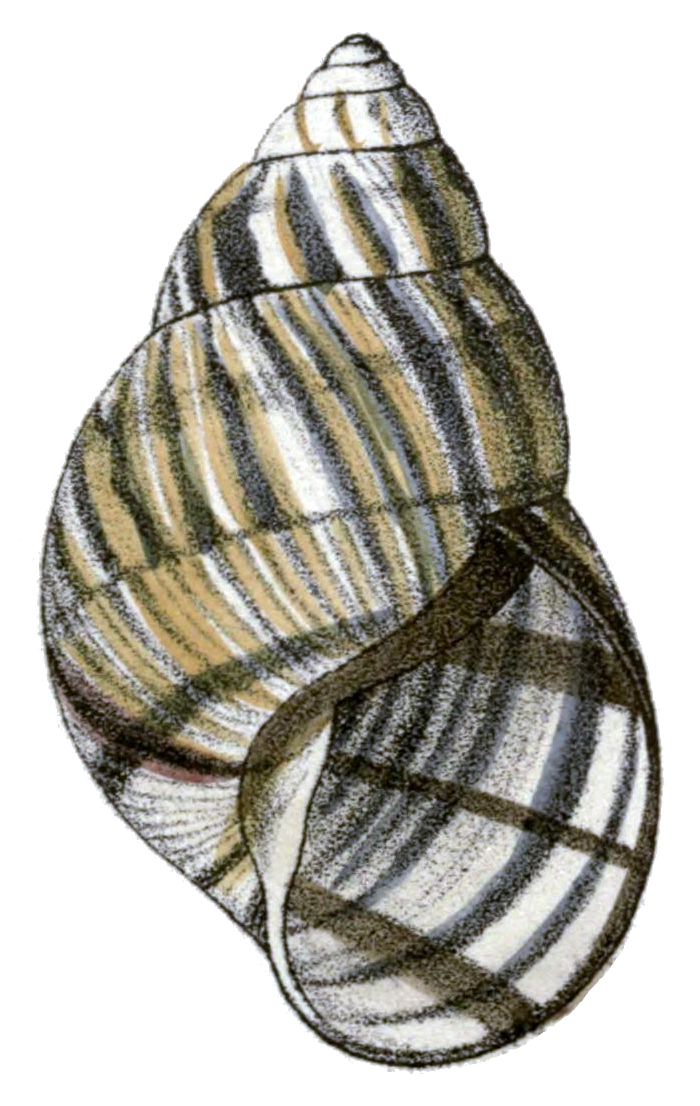 Drawing of apertural view of the shell of Orthalicus reses reses.